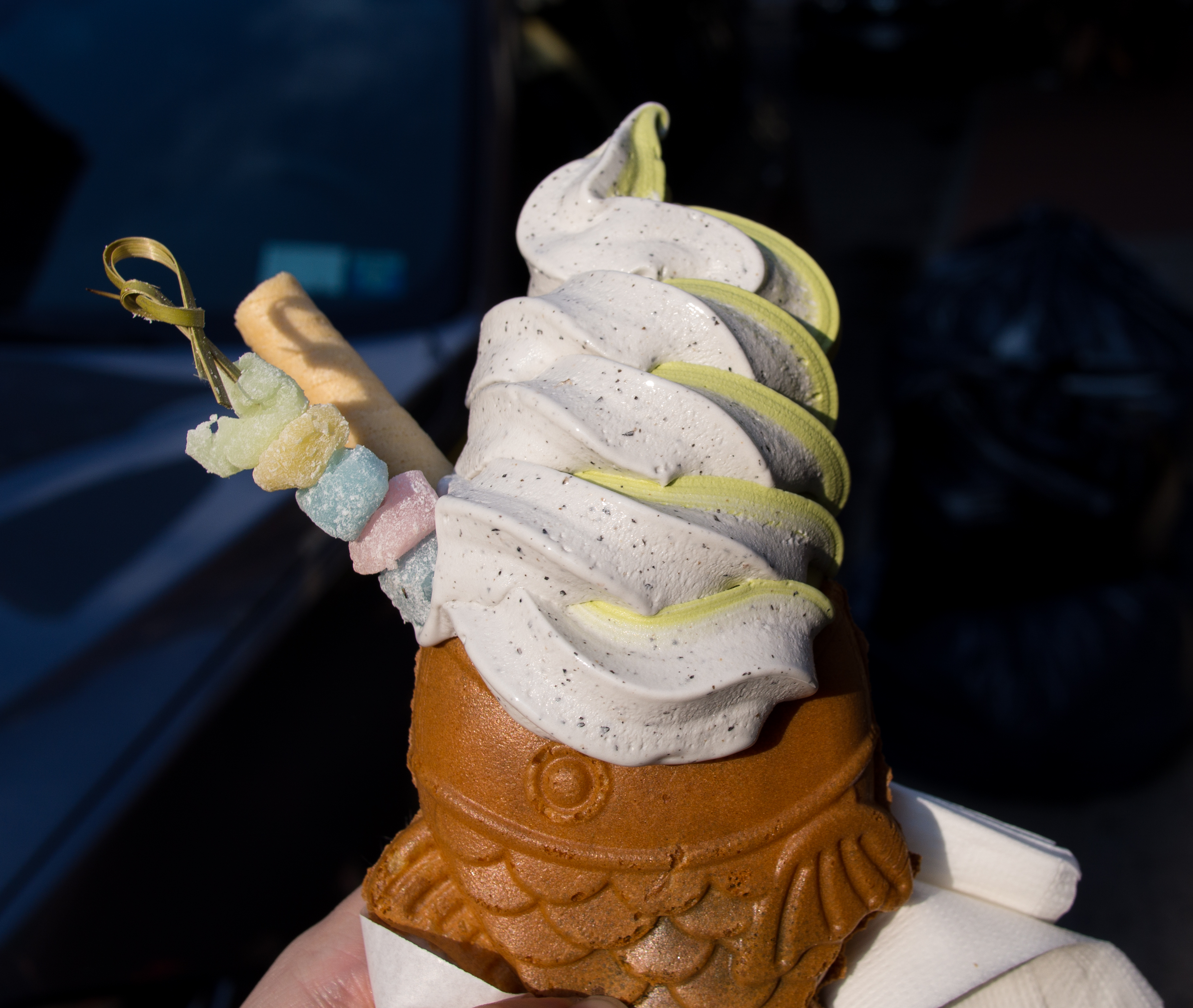 Taiyaki with red bean and matcha swirl ice cream, with mochi and a wafer cookie sticking out.